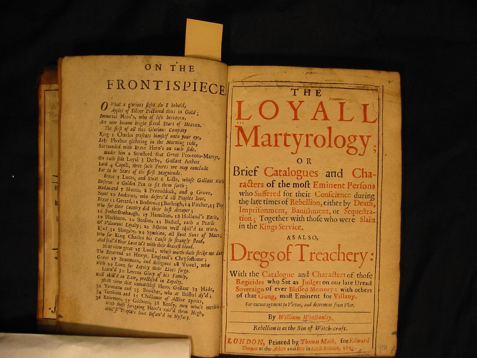 William Winstanley: Loyall Martyrology, 1665. Written after the restoration of Charles II and giving biographies of Charles I and other royalists executed by the courts of the Parliament